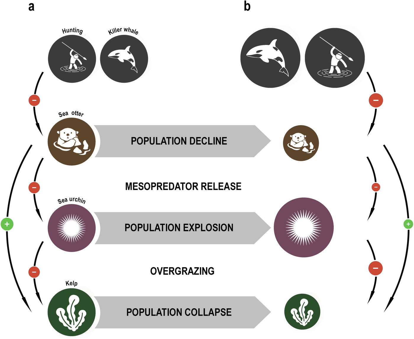 Schematic representation of the changes in abundance between trophic groups in a temperate rocky reef ecosystem. (a) Interactions at equilibrium. (b) Trophic cascade following disturbance. In this case, the otter is the dominant predator and the macroalgae are kelp. Arrows with positive (green, +) signs indicate positive effects on abundance while those with negative (red, -) indicate negative effects on abundance. The size of the bubbles represents the change in population abundance and associated altered interaction strength following disturbance. Based on: Estes JA, Tinker MT, Williams TM et al (1998) "Killer whale predation on sea otters linking oceanic and nearshore ecosystems". Science, 282: 473–476.